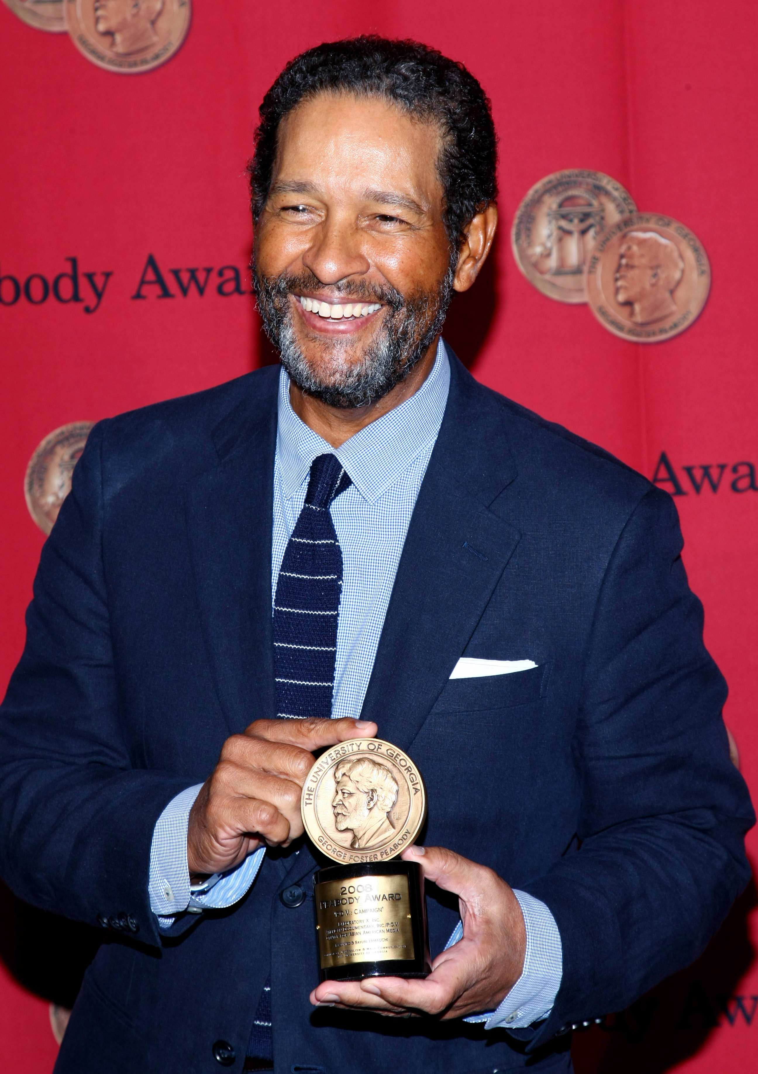 PHOTO CREDIT: ANDERS KRUSBERG / PEABODY AWARDS 72nd Annual Peabody Awards Luncheon Waldorf-Astoria Hotel May 20, 2013